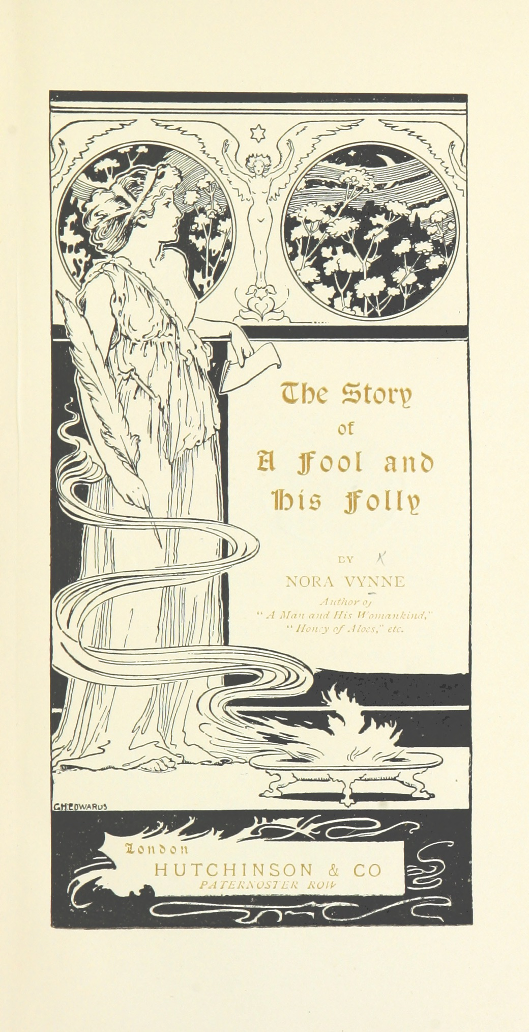 Image taken from: Title: "The Story of a Fool and his Folly" Author(s): Vynne, Nora [person] British Library shelfmark: "Digital Store 012627.l.42" Page: 9 (scanned page number - not necessarily the actual page number in the publication) Place of publication: London (England) Date of publication: 1896 Publisher: Hutchinson Type of resource: Monograph Language(s): English Physical description: 268 pages (8°) Explore this item in the British Library’s catalogue: 003822117 (physical copy) and 014867848 (digitised copy) (numbers are British Library identifiers) Other links related to this image: - View this image as a scanned publication on the British Library’s online viewer (you can download the image, selected pages or the whole book) - Order a higher quality scanned version of this image from the British Library Other links related to this publication: - View all the illustrations found in this publication - View all the illustrations in publications from the same year (1896) - Download the Optical Character Recognised (OCR) derived text for this publication as JavaScript Object Notation (JSON) - Explore and experiment with the British Library’s digital collections The British Library community is able to flourish online thanks to freely available resources such as this. You can help support our mission to continue making our collection accessible to everyone, for research, inspiration and enjoyment, by donating on the British Library supporter webpage here. Thank you for supporting the British Library.